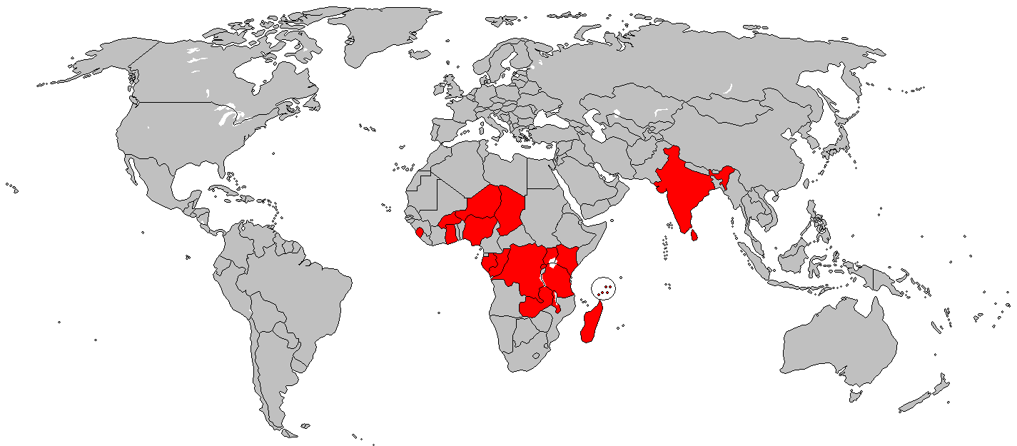 Map shows the coverage of Bharti Airtel (an Indian telecom operator) across various countries of the world.